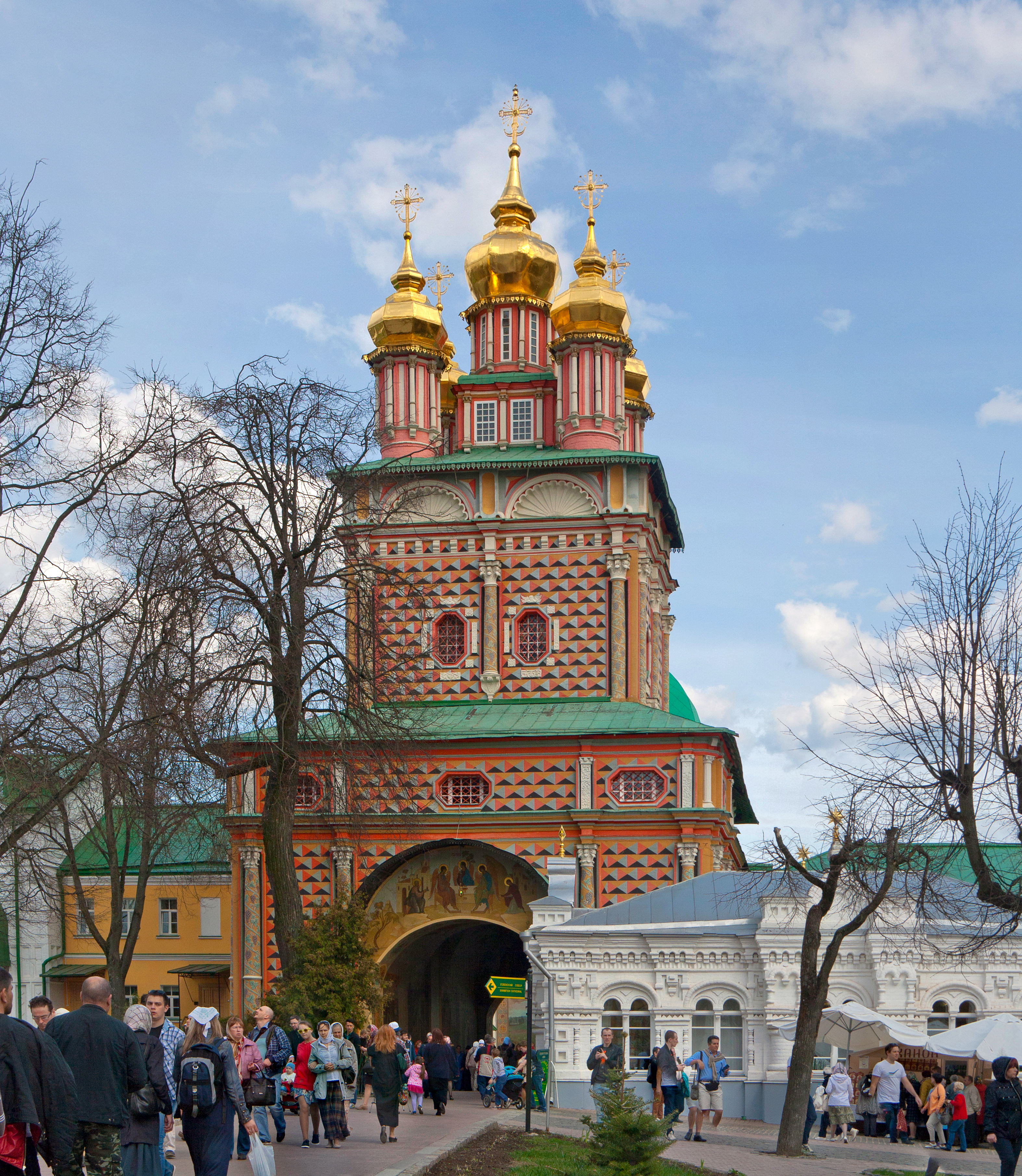 Church of the Nativity of John the Baptist, Troitse-Sergiyeva Lavra, Sergiev Posad, Moscow Oblast, Russia